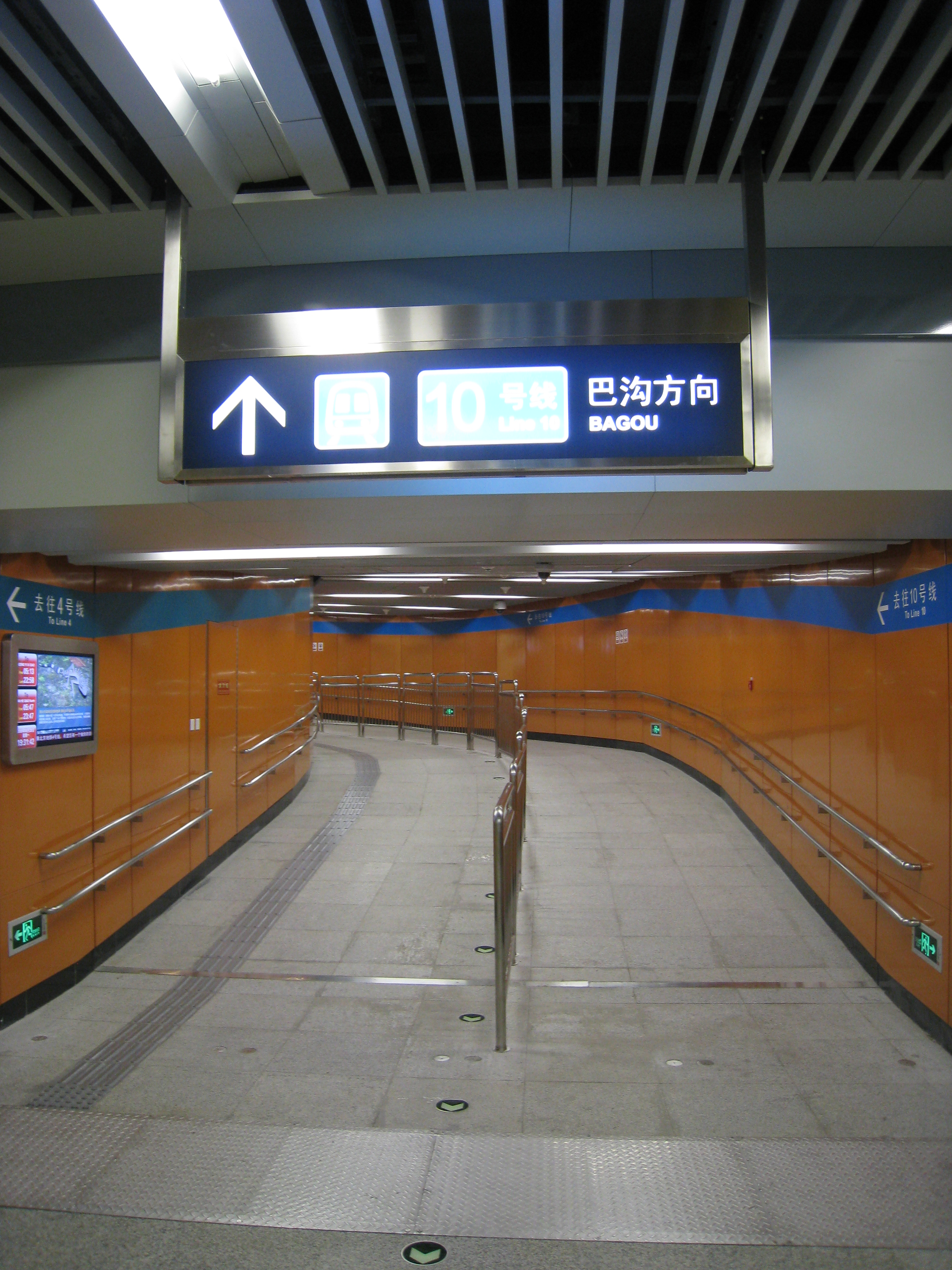 The transfer path of Haidianhuangzhuang Station of Lines 4 and 10, Beijing Subway. 中文（中国大陆）: 北京地铁4号线及10号线海淀黄庄站换乘通道